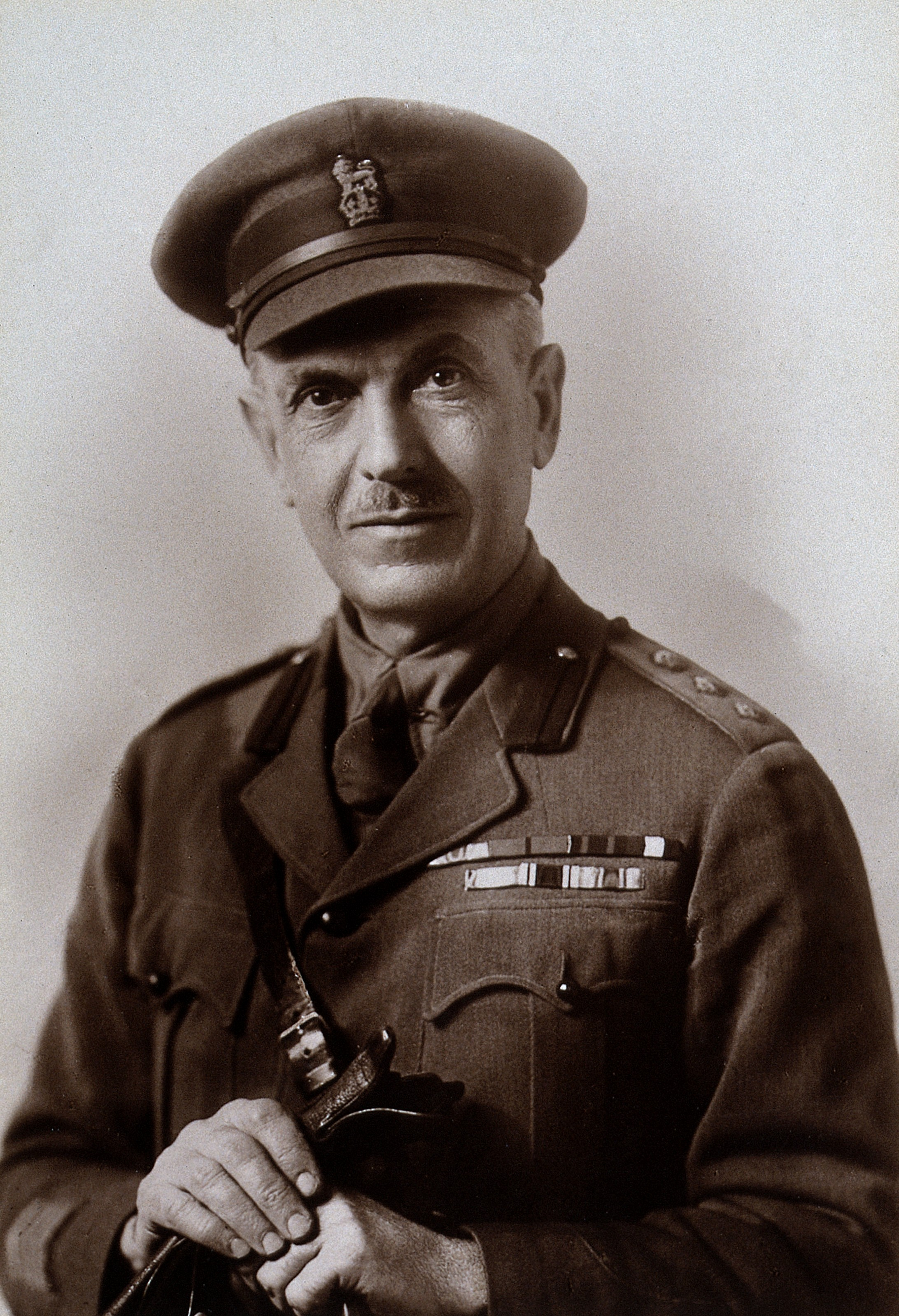 Thomas Boswell Beach. Photograph by Swaine. Iconographic Collections Keywords: portrait photographs